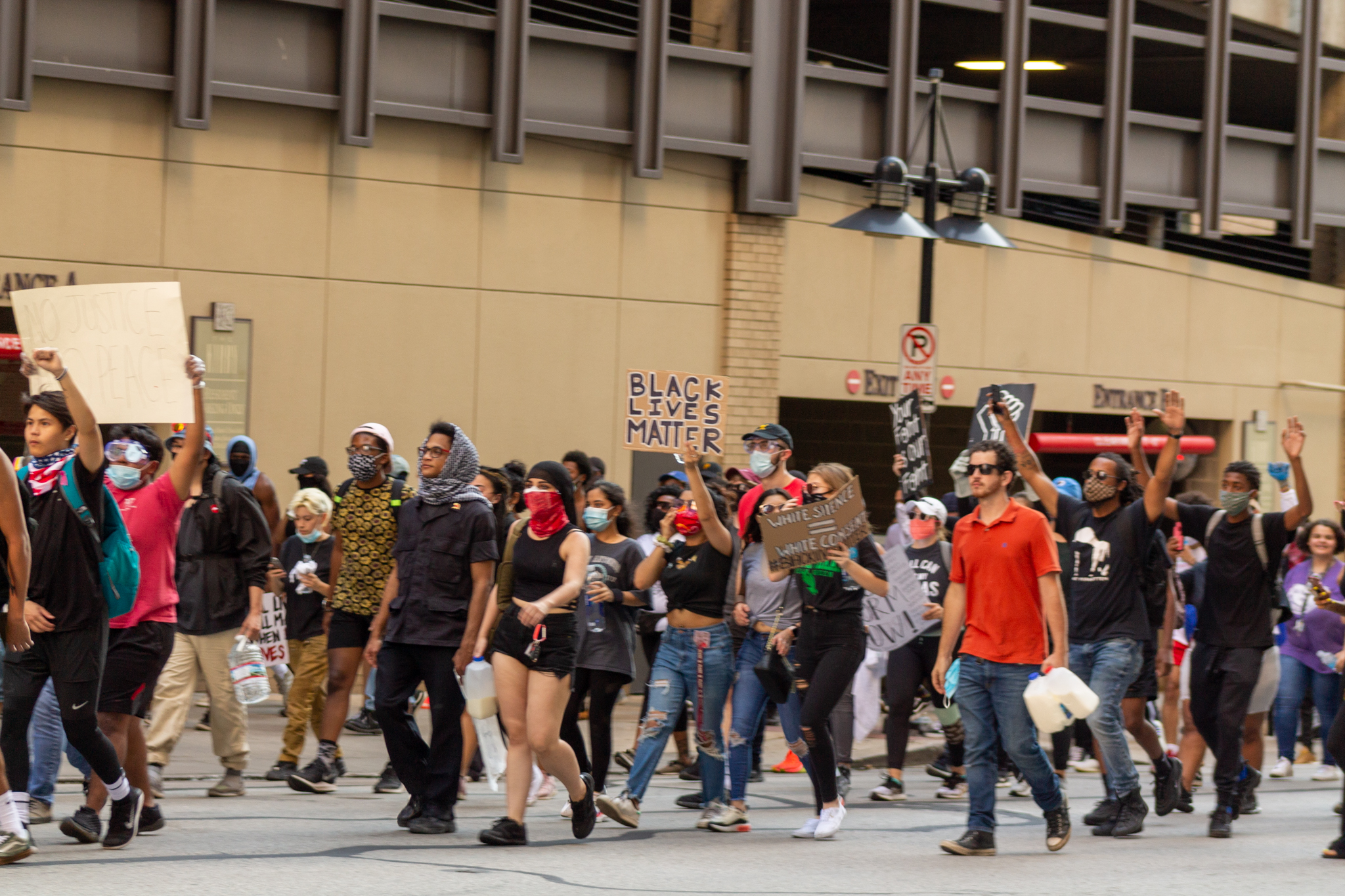 DallasProtest2020-29